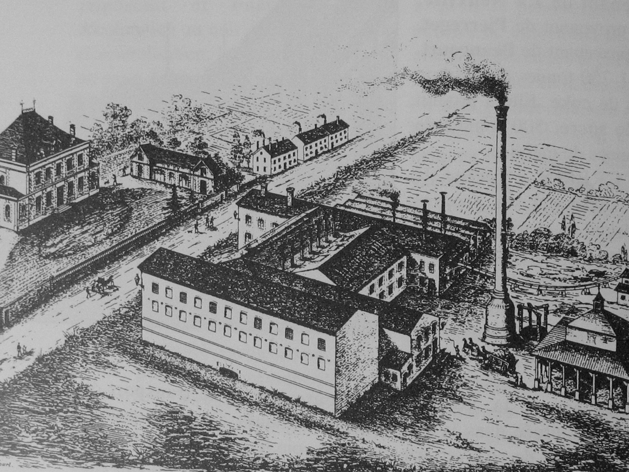 Sugar beet refinery in Querrieu, France, circa 1880